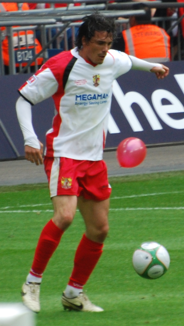 Ronnie Henry. Image cropped from original at flickr.